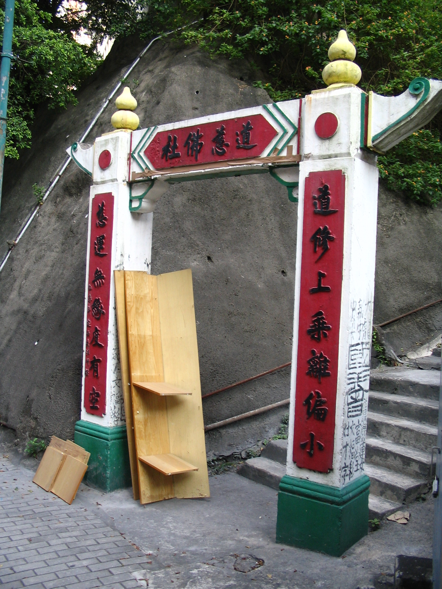 Photo of To Chi Fat She